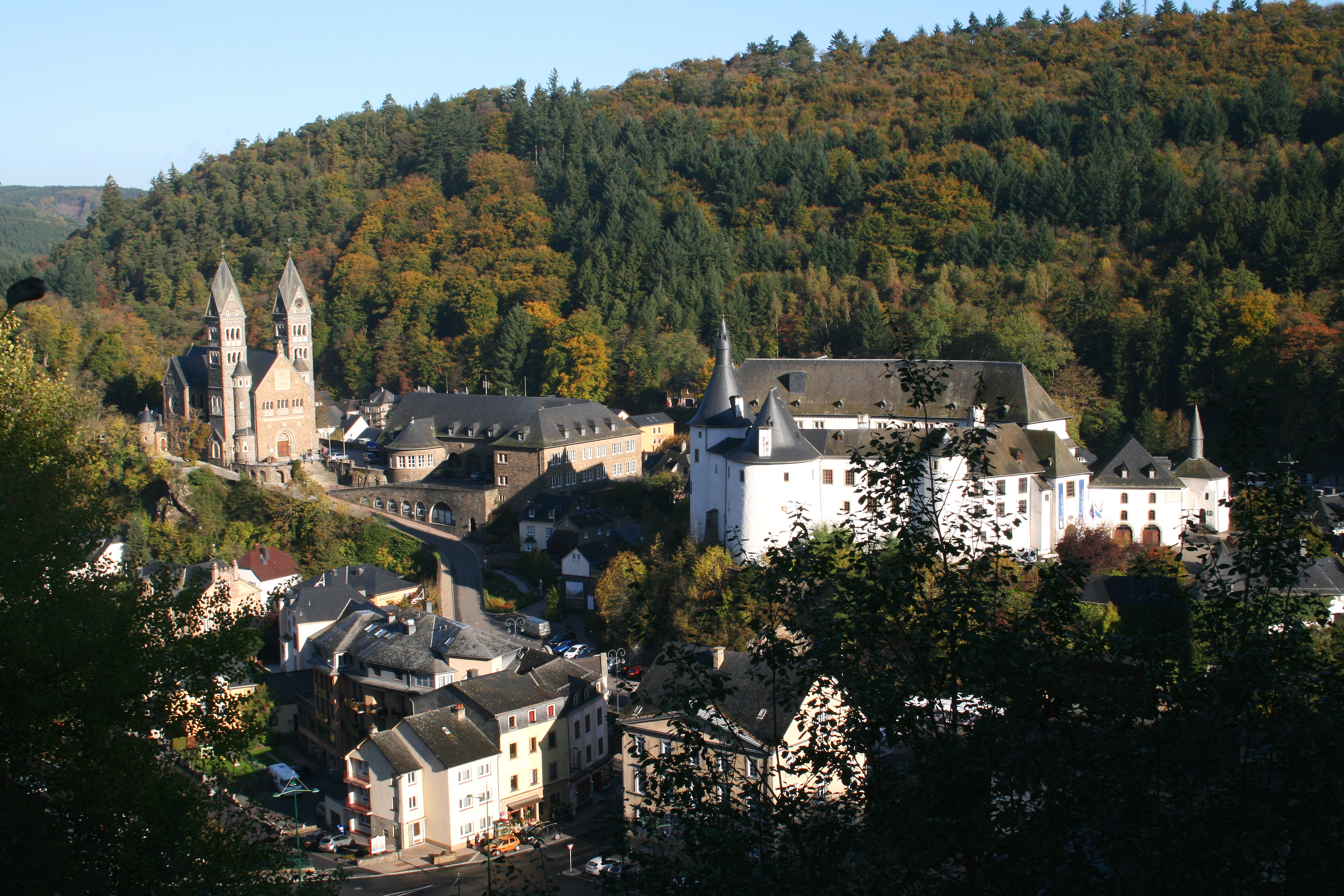 Clervaux (Luxembourg) - The city, the medieval castle (XIIth century) and the deanship's church (1910-1912).